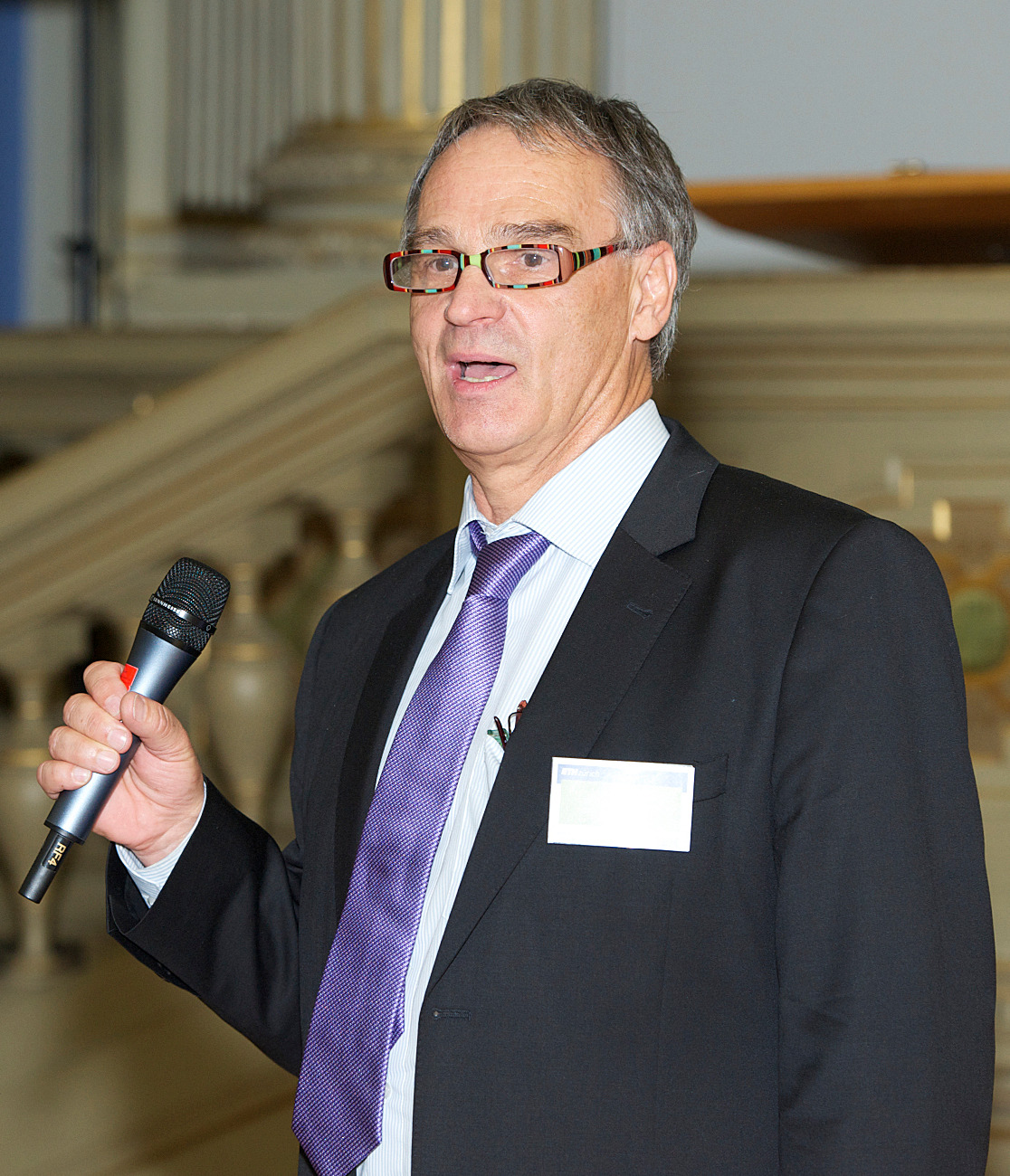 Gerd Binnig at the Memorial Symposium for Heinrich Rohrer at ETH Zurich on 31 October 2013 © D-PHYS/Heidi Hostettler